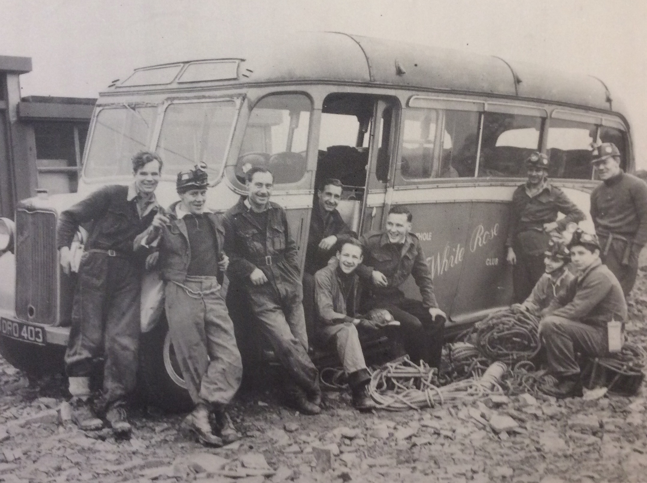 Left to right: J Hind-Smith, Roy Dixon, G Steward, Frank Wood, Eric Dixon, Leo Davey, DJ Richardson, Ken Smith, Robert Dixon, Keith Shepherd